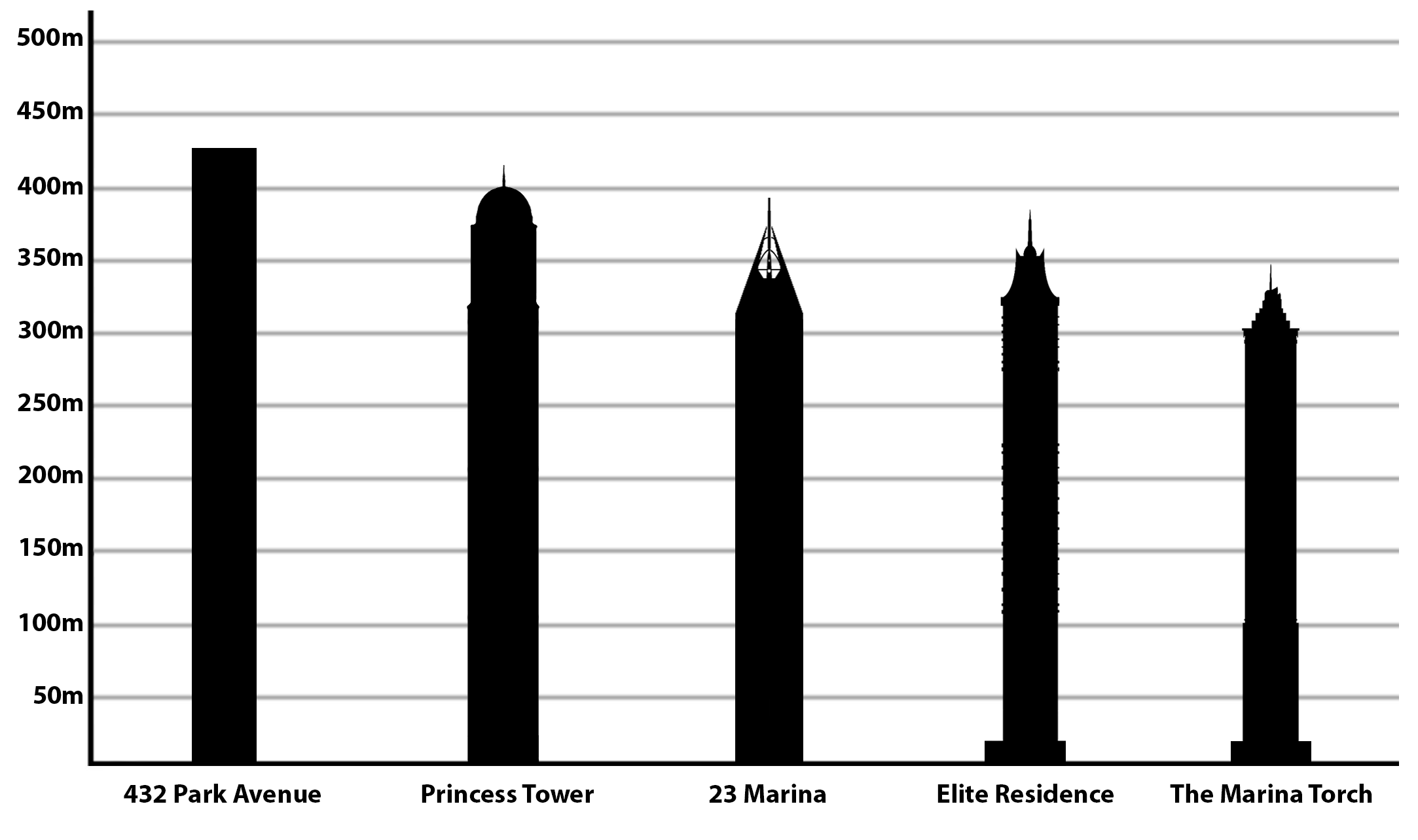 Tallest residential buildings in the world; Used data from .